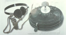 Marconi crystal radio using galena detector, 1923